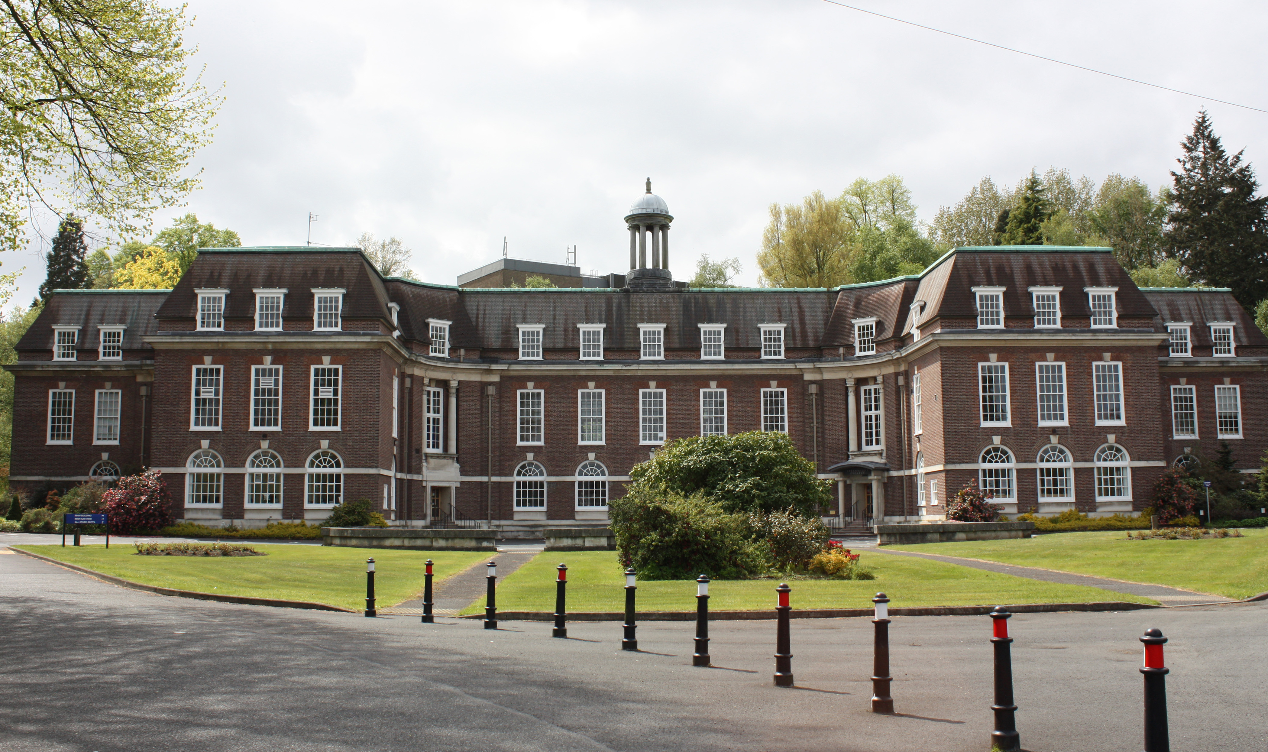 Stranmillis University College, Stranmillis Road, Belfast, Northern Ireland, May 2010